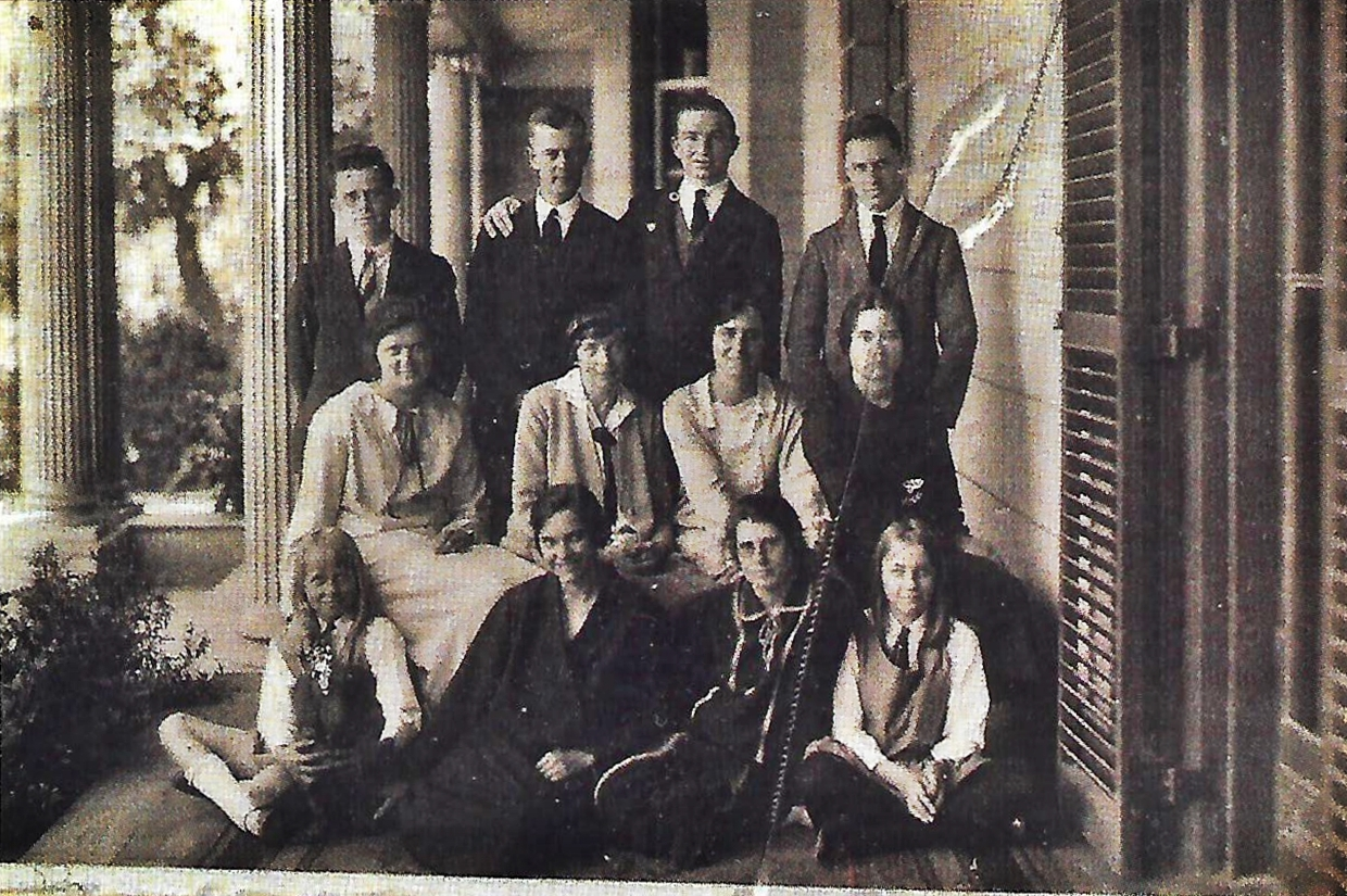 Image of students taken circa 1928, five years after Bible Institute of South Africa (BISA) was founded. Thought to be taken in the College's early premises in Mowbray, Cape town, in the vicinity of St Peter's Anglican Church. The college was subsequently relocated to its present site in Kalk Bay.